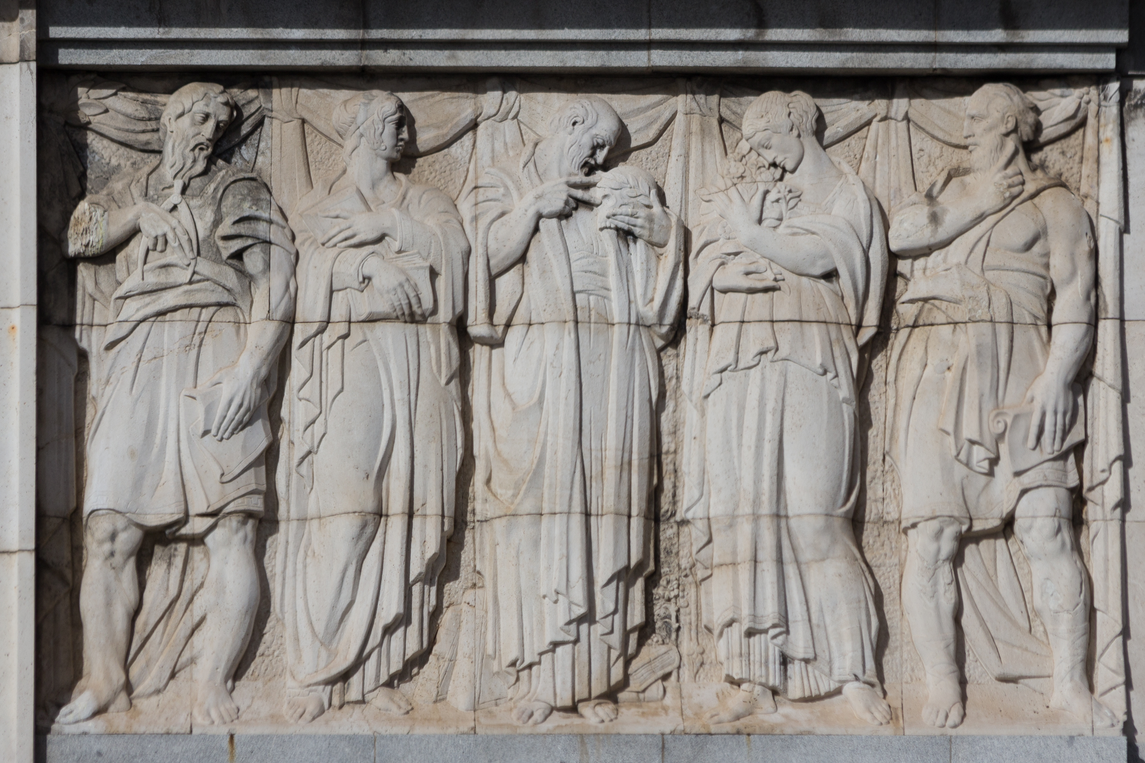 Victory arch, Madrid, Spain.